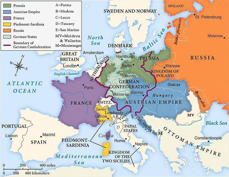 Map of Europe, after the Congress of Vienna, 1815